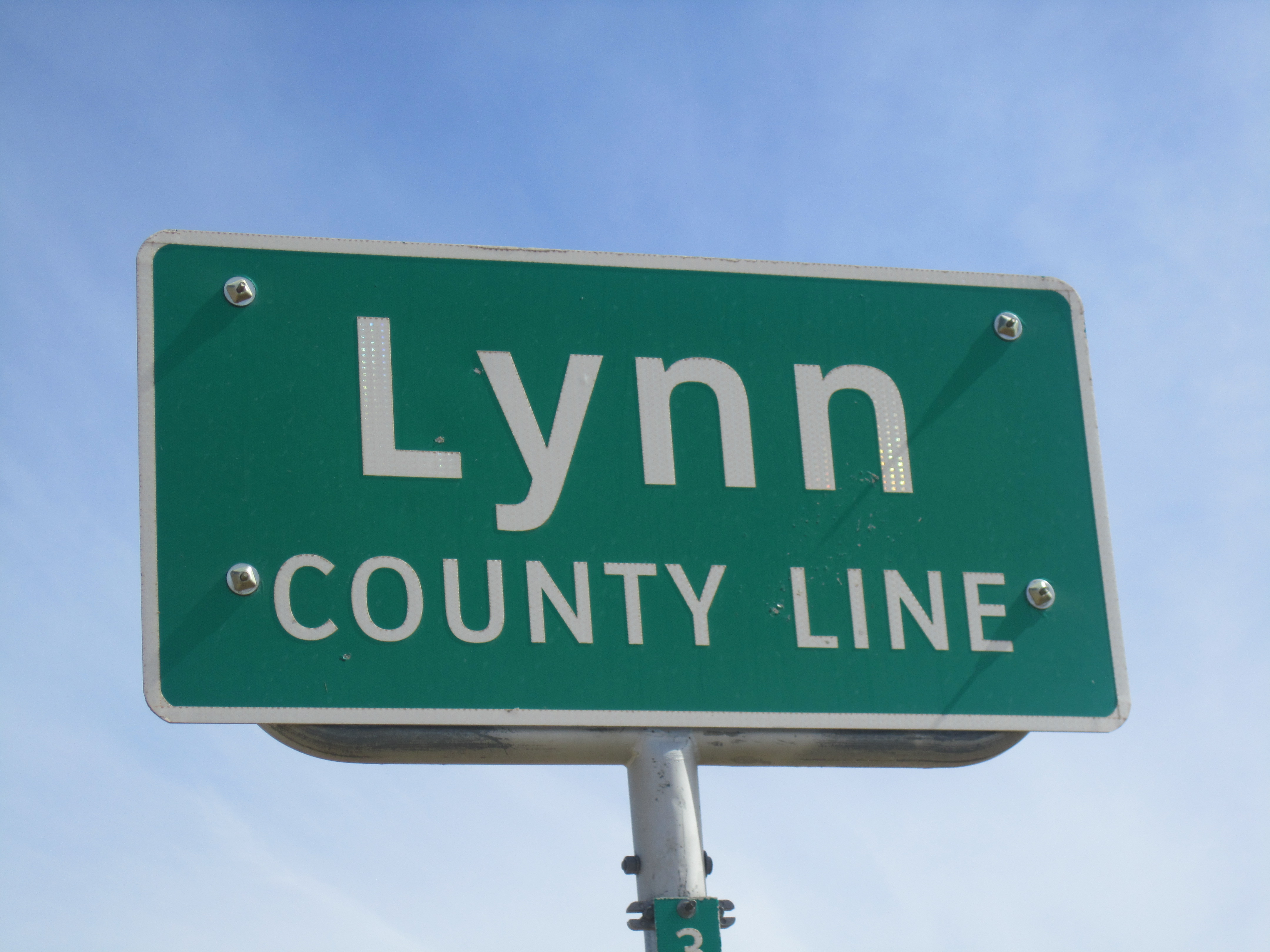 I took photo with Canon camera in Lynn County, TX.